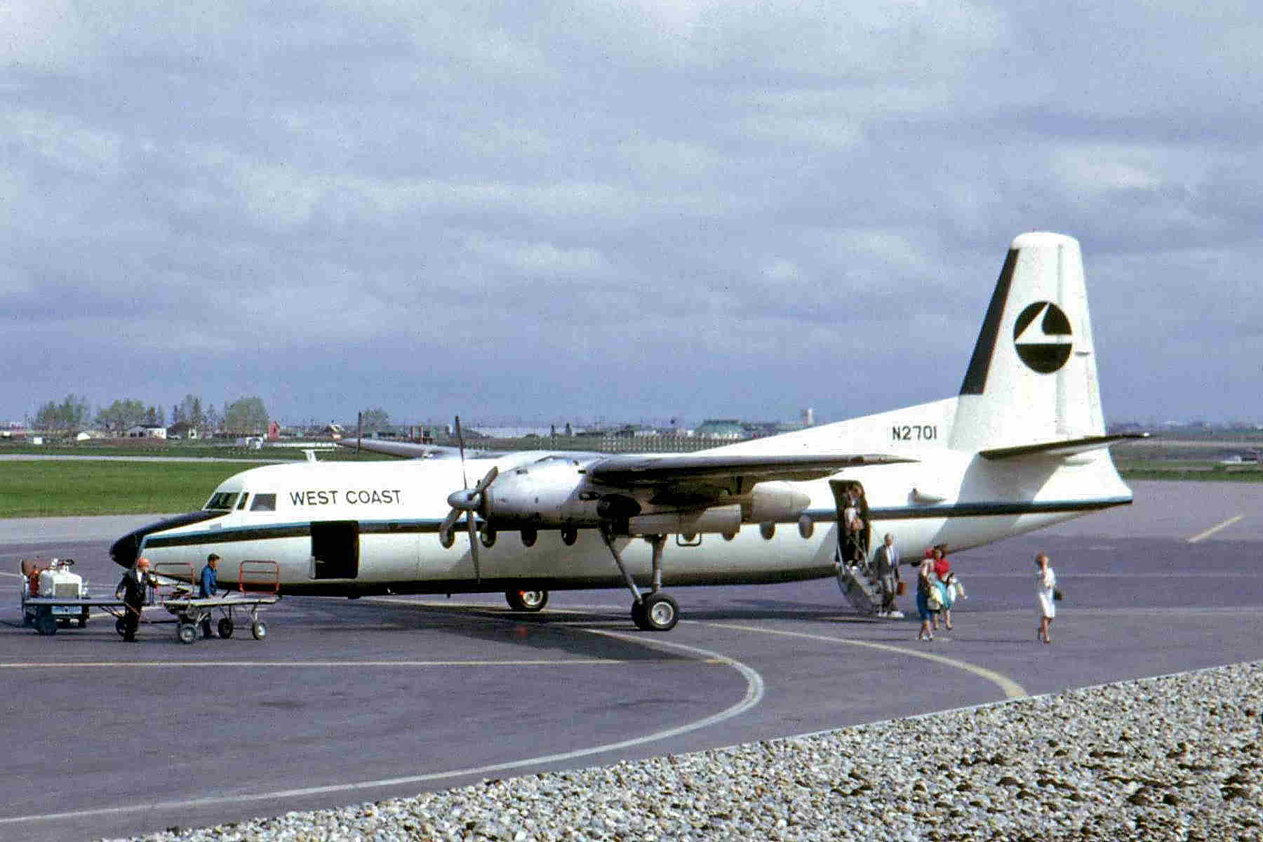 A picture of an airplane